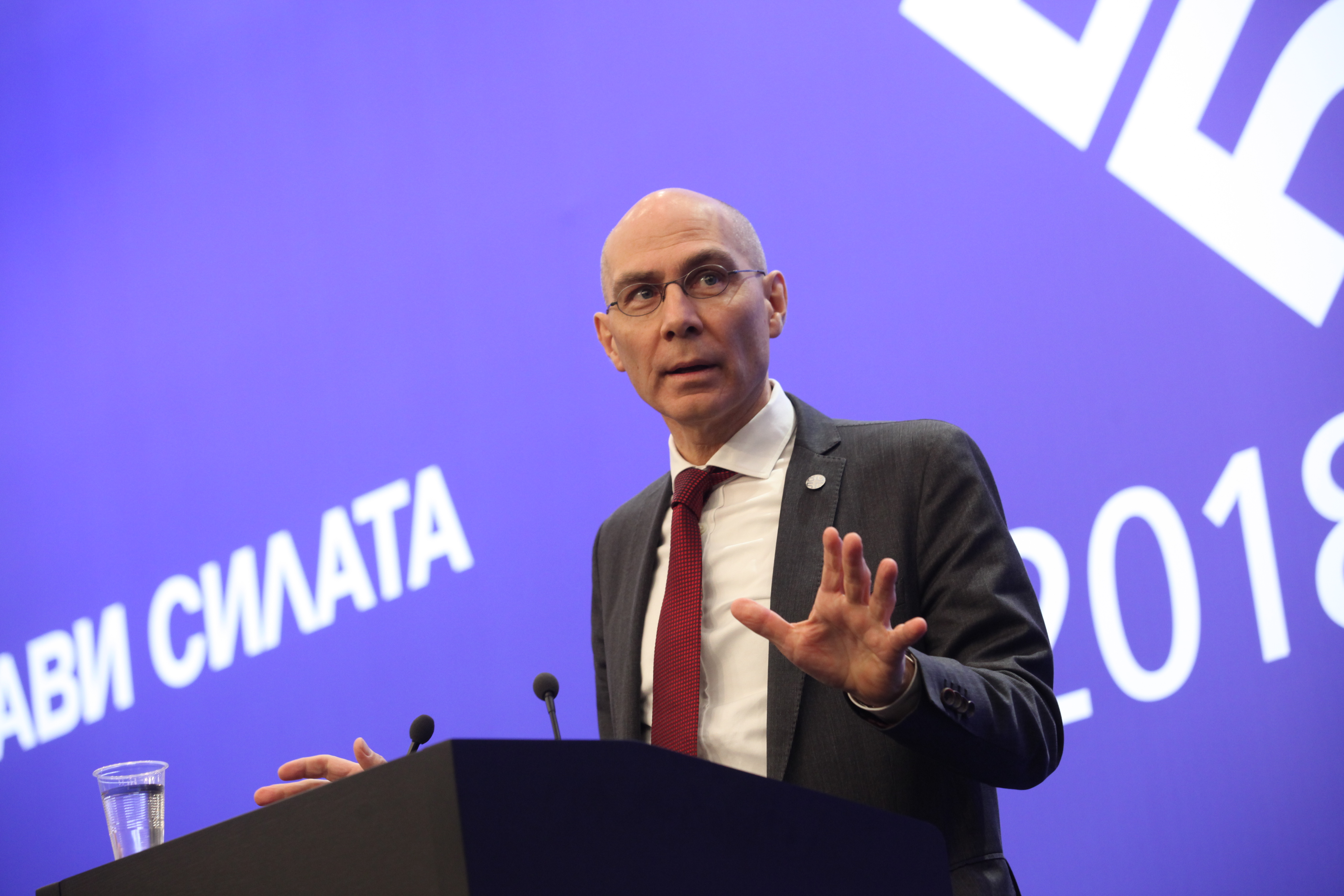 Volker Türk, UNHCR's Assistant High Commissioner for Protection Photo: Plamen Stoimenov (EU2018BG)